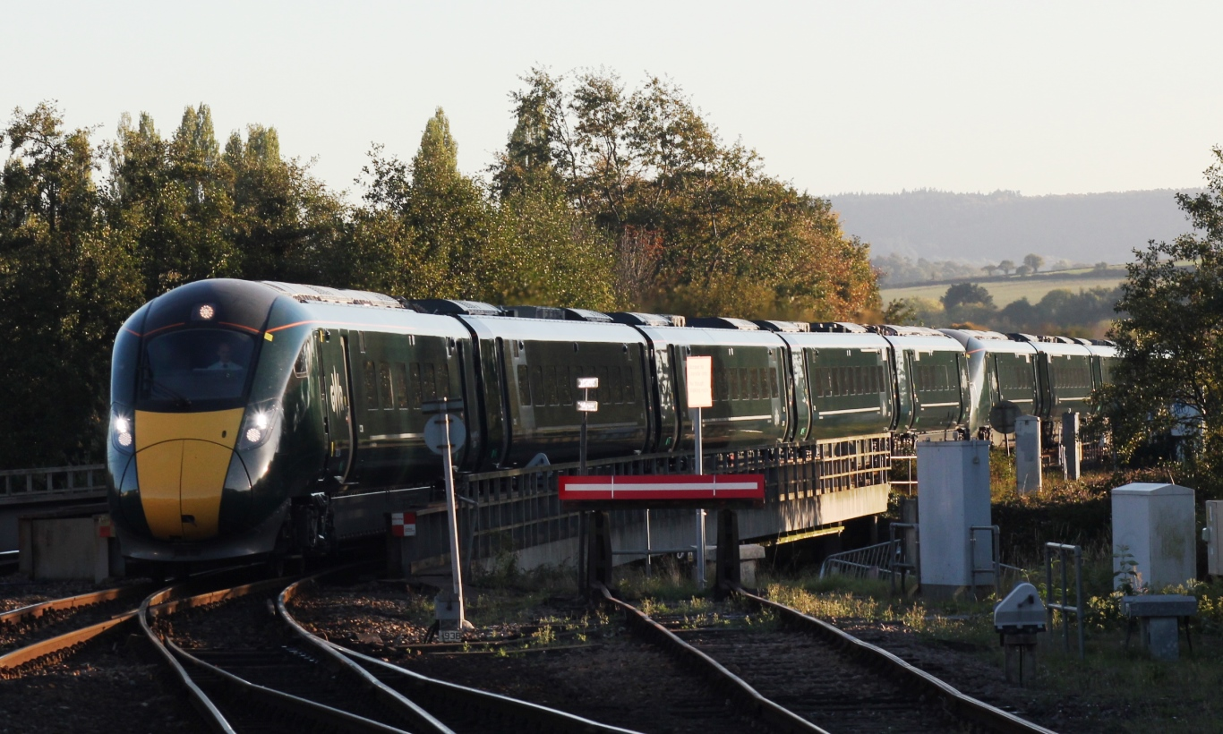 A pair of Great Western Railway's InterCity Express Trains - numbers 802004 and 802005 - arrive at Exeter St Davids with an afternoon service from Penzance to London Paddington.